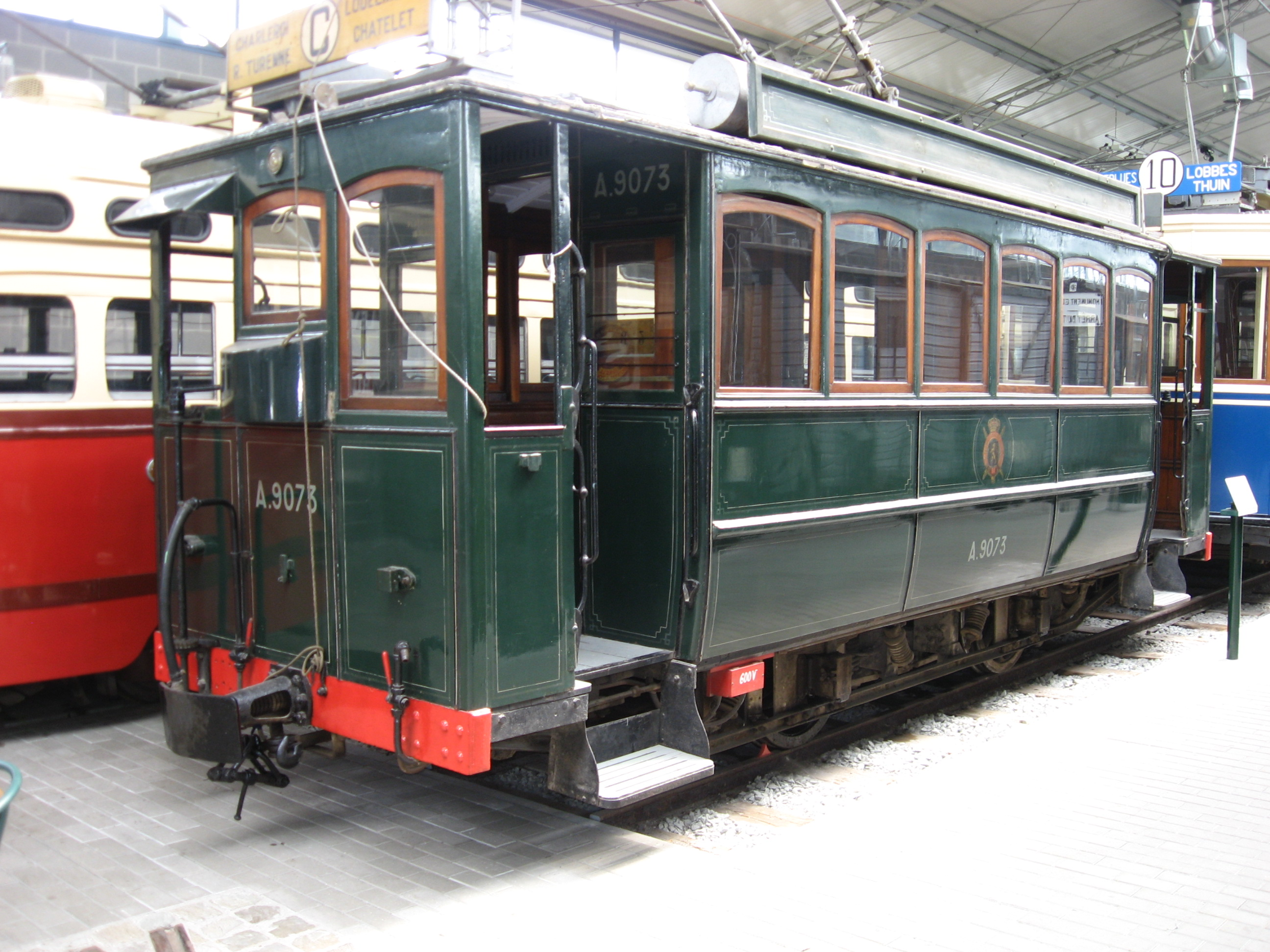 Electric tram build in 1897 for Charleroi citytram.